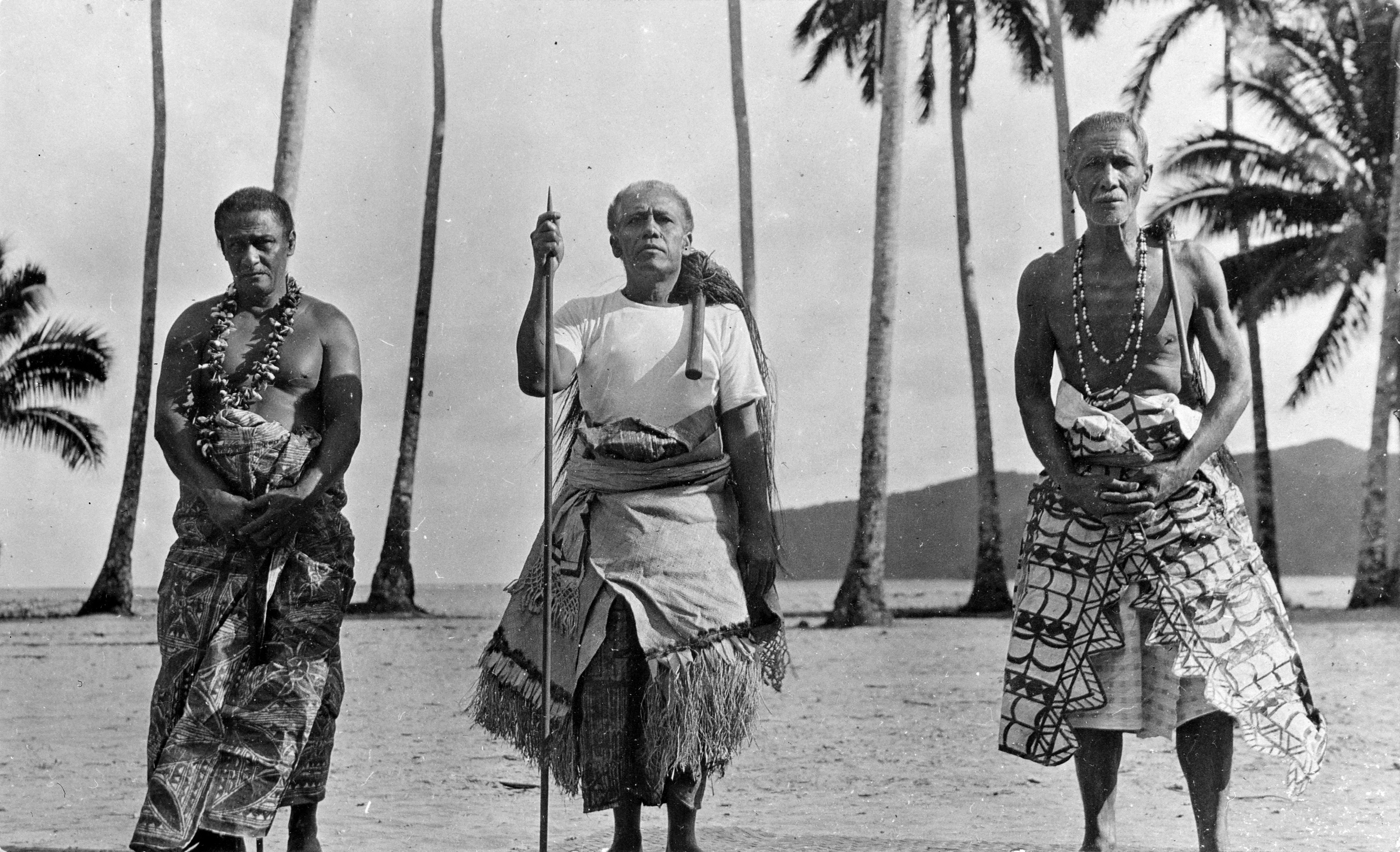 Three Samoan chiefs including two orators.